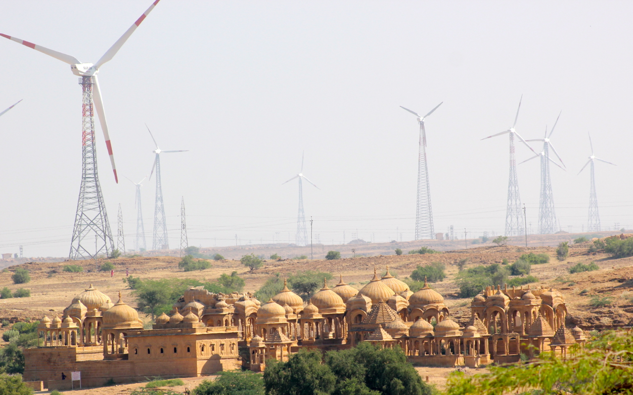 Bhatti cenotaphs or windmills from BHEL and Suzlon - which ones do you prefer? Jaisalmer, Rajasthan, India. Oct '12.